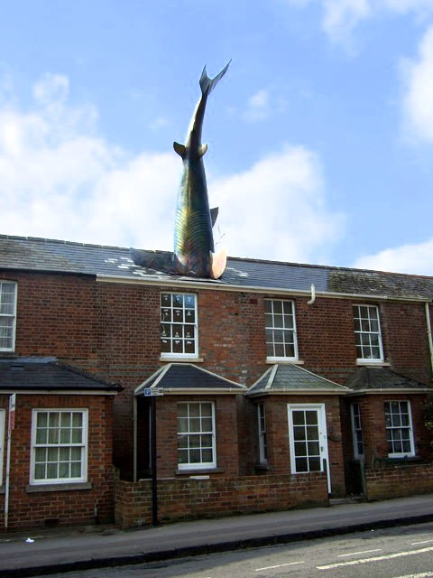 The Headington Shark Justly famous worldwide although now barely meriting a passing glance from the locals, this art installation/political symbol has pierced the roof of 2 New High Street since 1986 when then-cinema owner, now radio presenter, Bill Heine commissioned sculptor John Buckley to use his (Heine's) house for something "to express someone feeling totally impotent and ripping a hole in their roof out of a sense of impotence and anger and desperation.... It is saying something about CND, nuclear power, Chernobyl and Nagasaki." As might be expected Oxford City Council took exception to the breach of planning permission but eventually, after attracting comment high and low, the shark was given authority to remain and celebrated its 21st birthday in 2007.